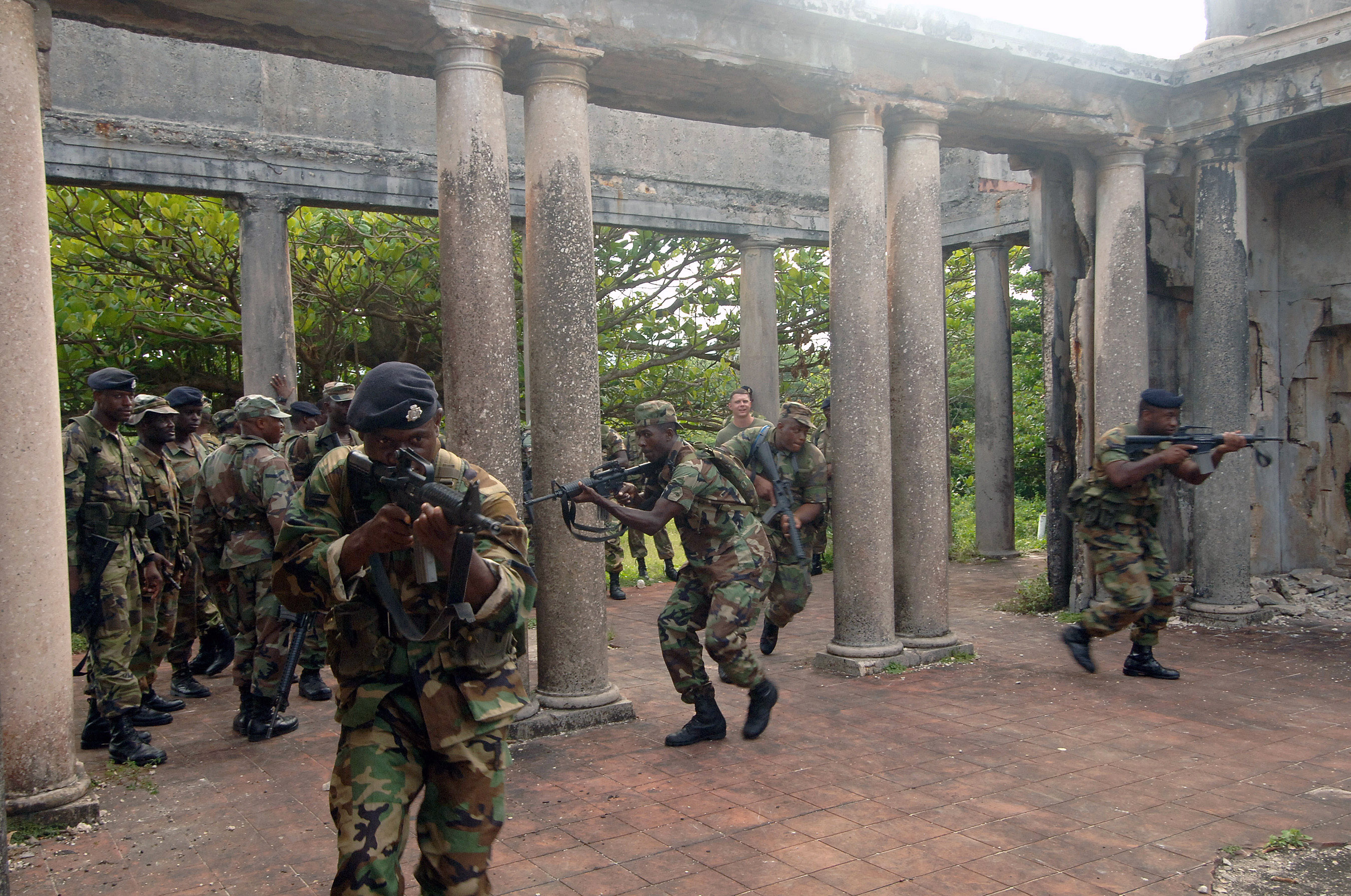 PORT ANTONIO, Jamaica (Sept. 25, 2007) - Members of the Jamaica Defense Force conduct Close Quarters Battle and room clearing drills with U.S. Marines assigned to a mobile training team during small unit training. Task Group 40.9 is embarked aboard High Speed Vessel (HSV 2) Swift and deployed under the operational control of U.S. Naval Forces Southern Command for the Global Fleet Station (GFS) pilot deployment to the Caribbean Basin and Central America. U.S. Navy photo by Mass Communication Specialist 1st Class David Hoffman (RELEASED)